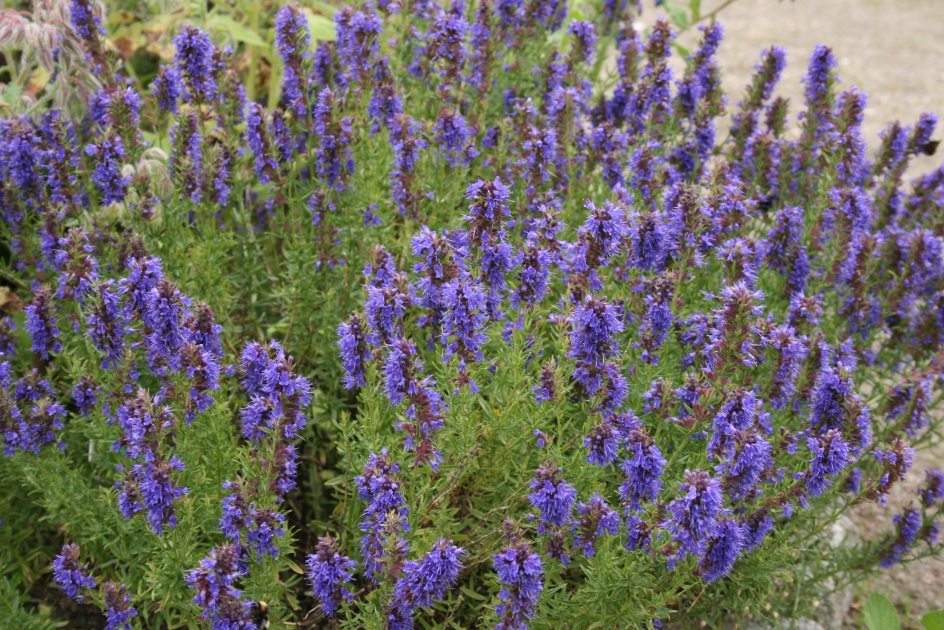 Hyssopus officinalis: Habitus (as grown in Denmark).